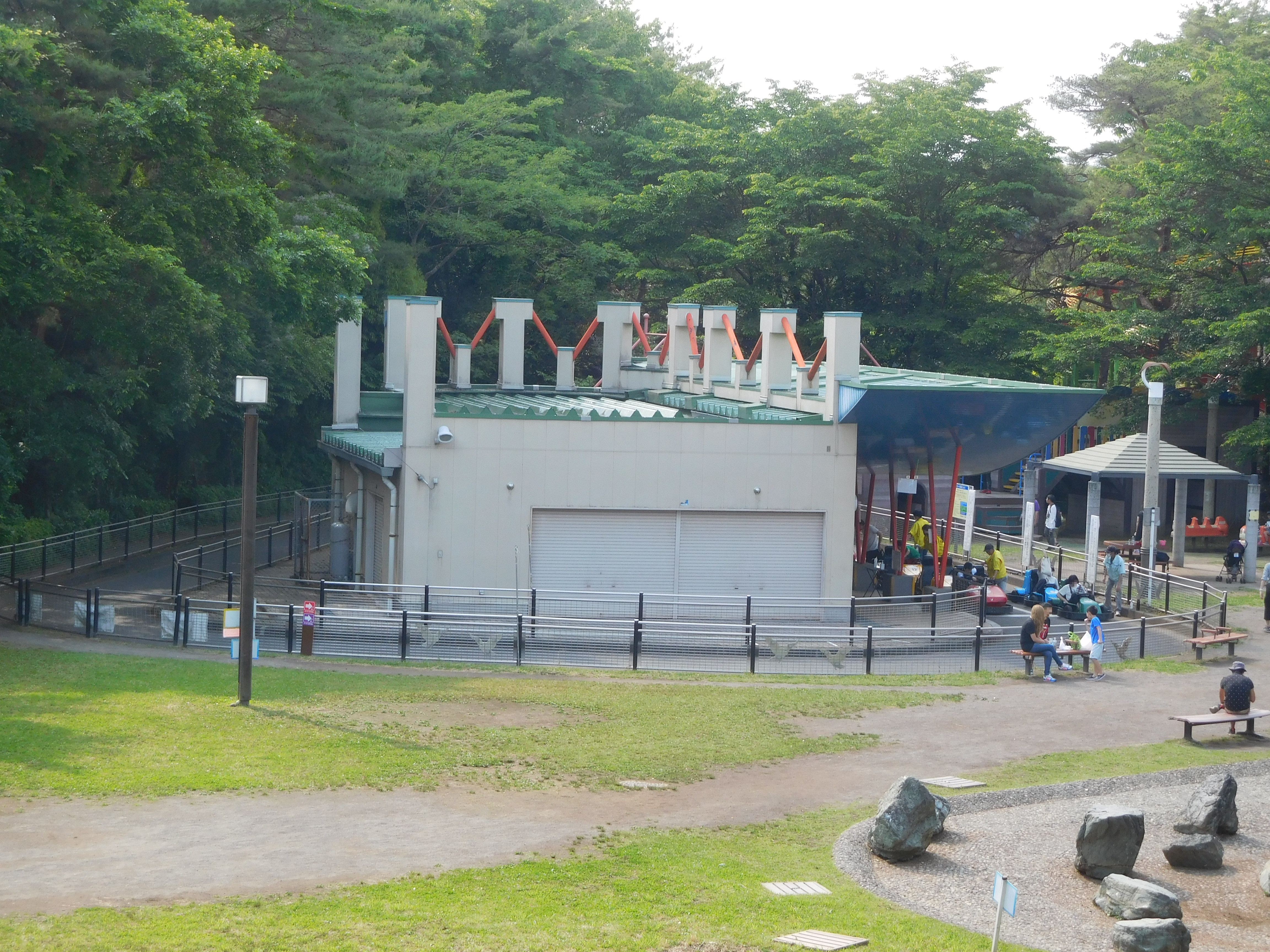 This is Hachimanyama Transport Park Car Racing Course in Utsunomiya, Tochigi, Japan.